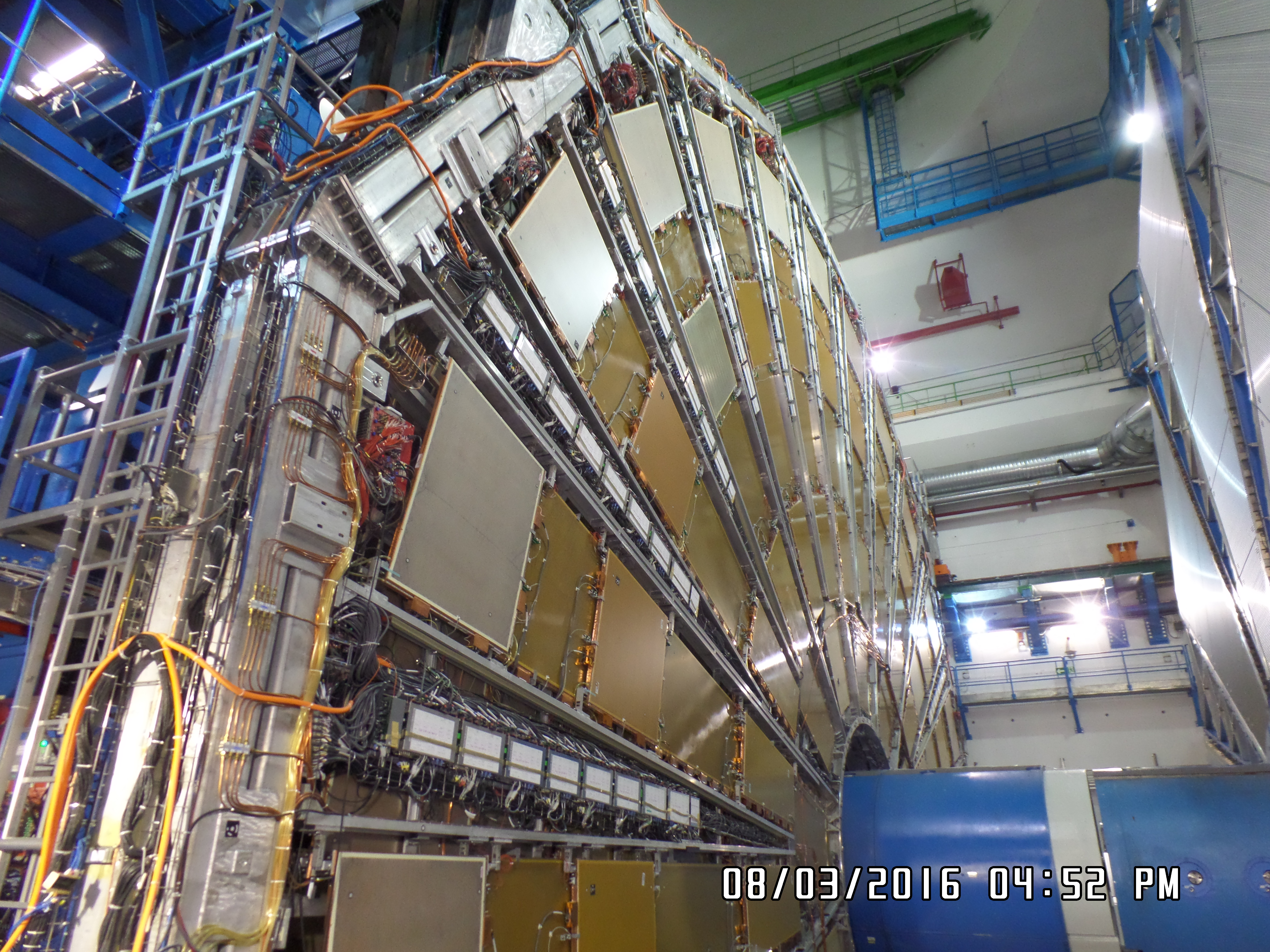 ATLAS MOun Detector